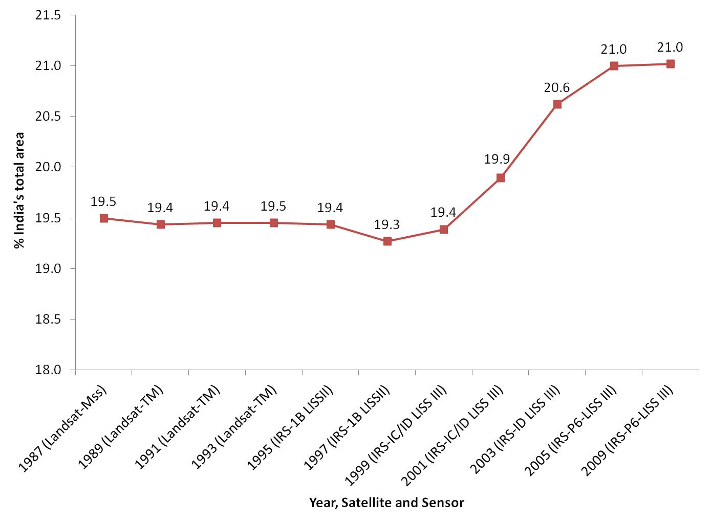 Change in India's forest cover from 1987-2009. Data obtained from India Statistical Report, 2011, Chapter 33 (Table 33.1 - Forest Cover Estimates). All percentages are based on 32,87,263 sq. km as total area of India. Sudden increase after 1999 may be because of better satellites and sensors.